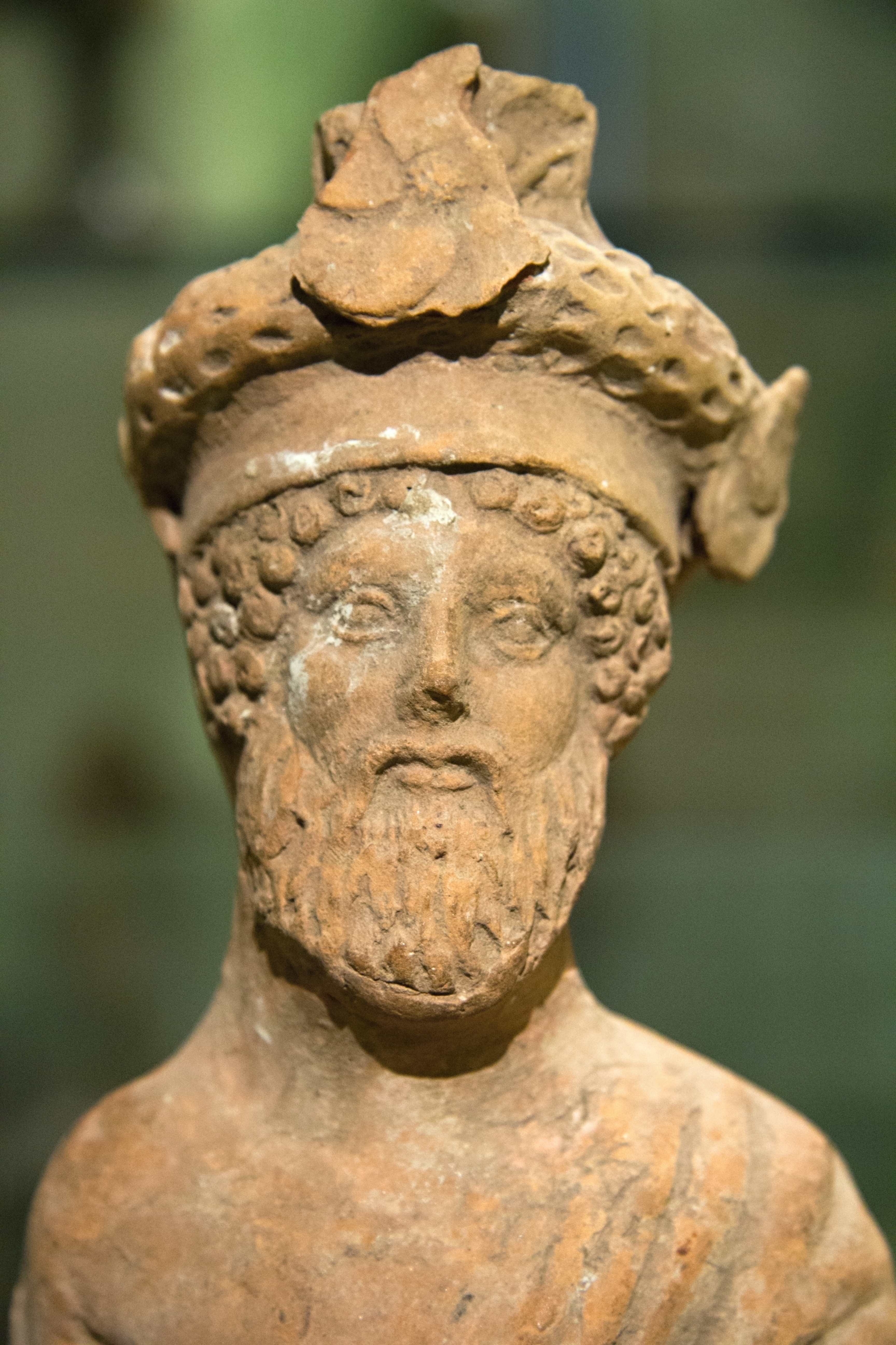 Bearded Dionysos at a feast, fragment. The head is adorned with a festive wreath with rosettes. Sharp mould of a fine-quality and well-fired clay. (Produced in the samo workshop like Youthsful Dionysos NM-H10 4777.) Early 4th century BC. NG Prague, Kinský Palace, NM-H10 4778.